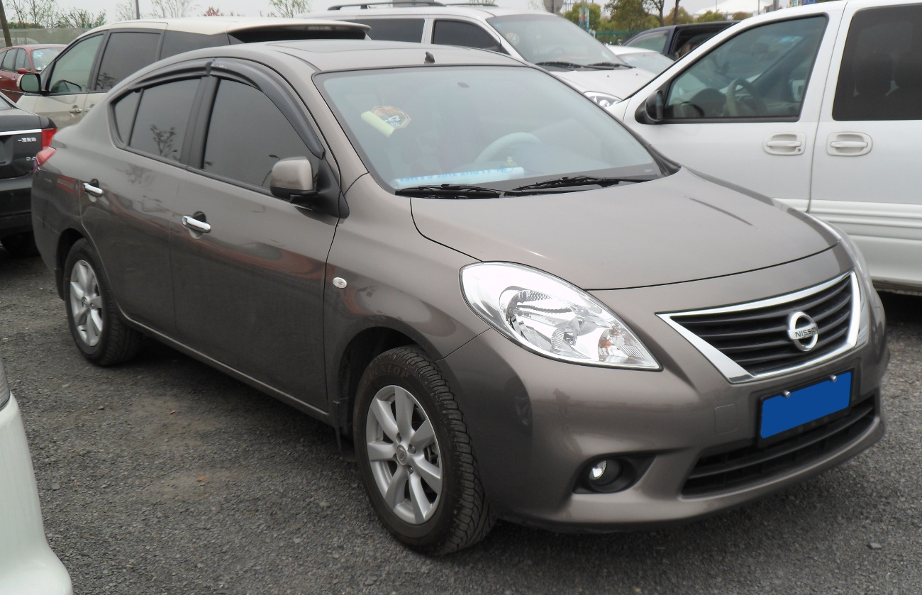 Nissan Sunny N17 photographed in Anting, Shanghai municipality, China.